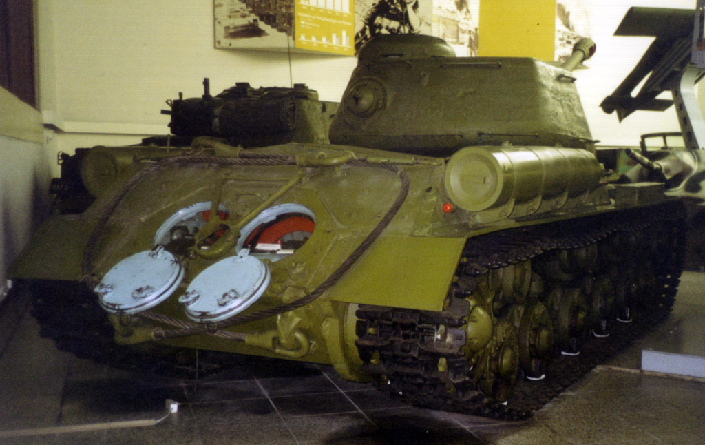 Soviet tank IS-2 (rear view), on display in the Militärhistorischen Museum der Bundeswehr in Dresden